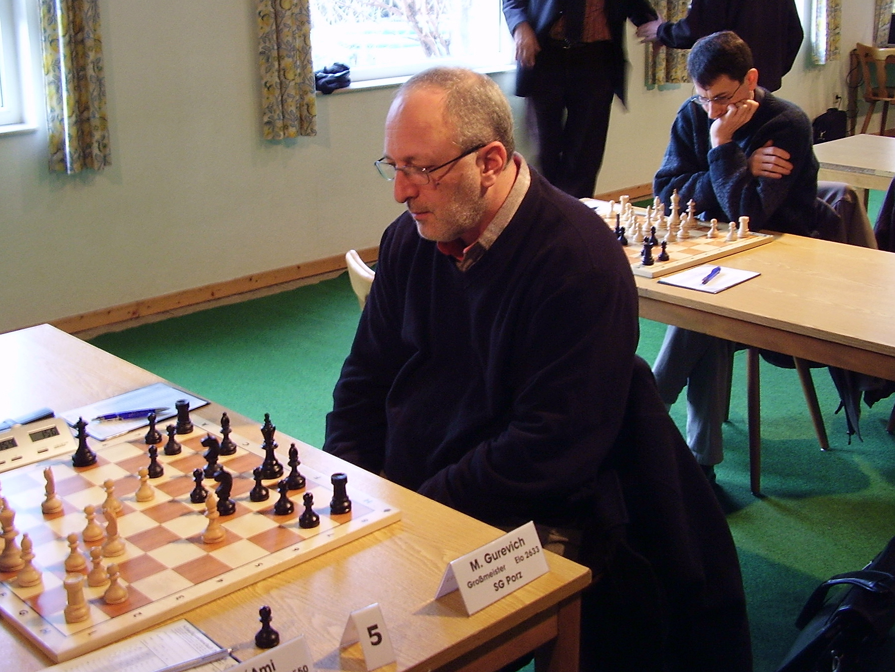 Michail Gurevich, February 2006. Own photo